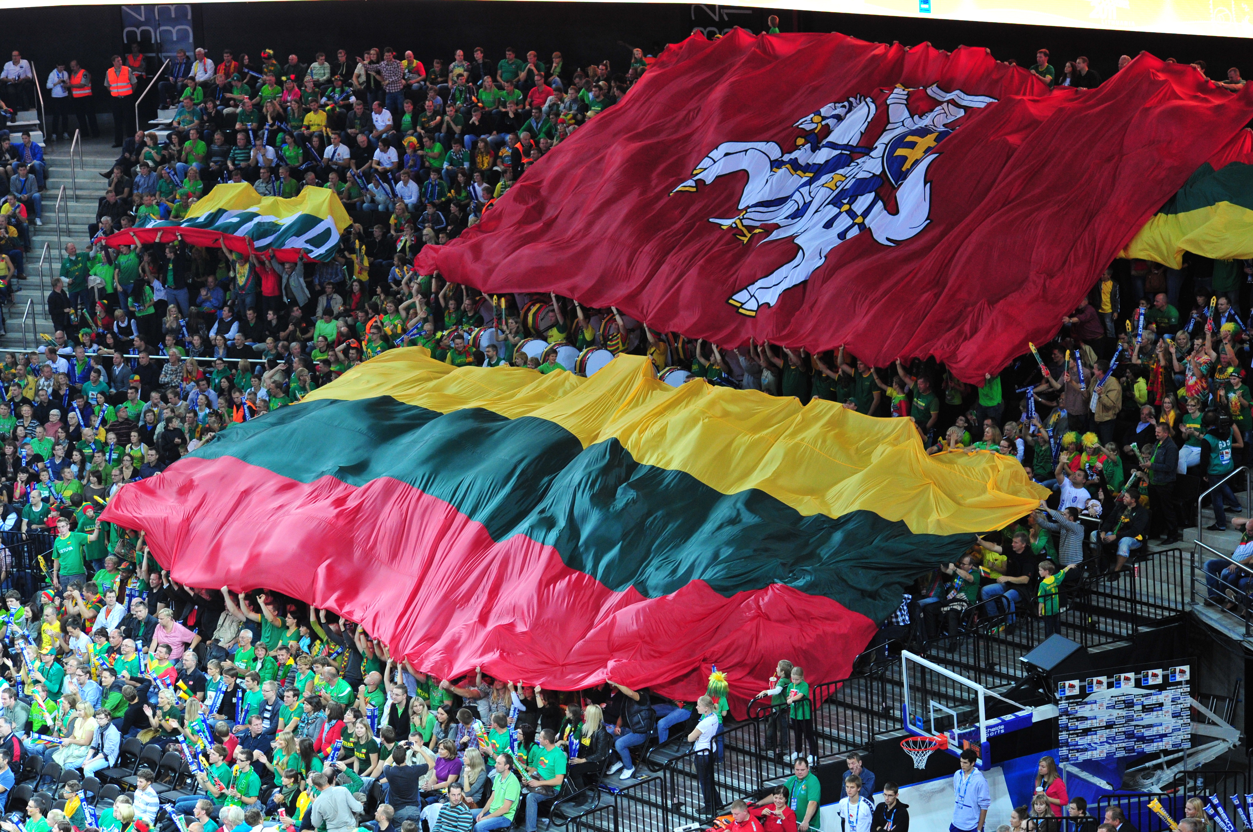 Lithuania national basketball team fans displays Lithuania and historical Vytis flags during the EuroBasket 2011.